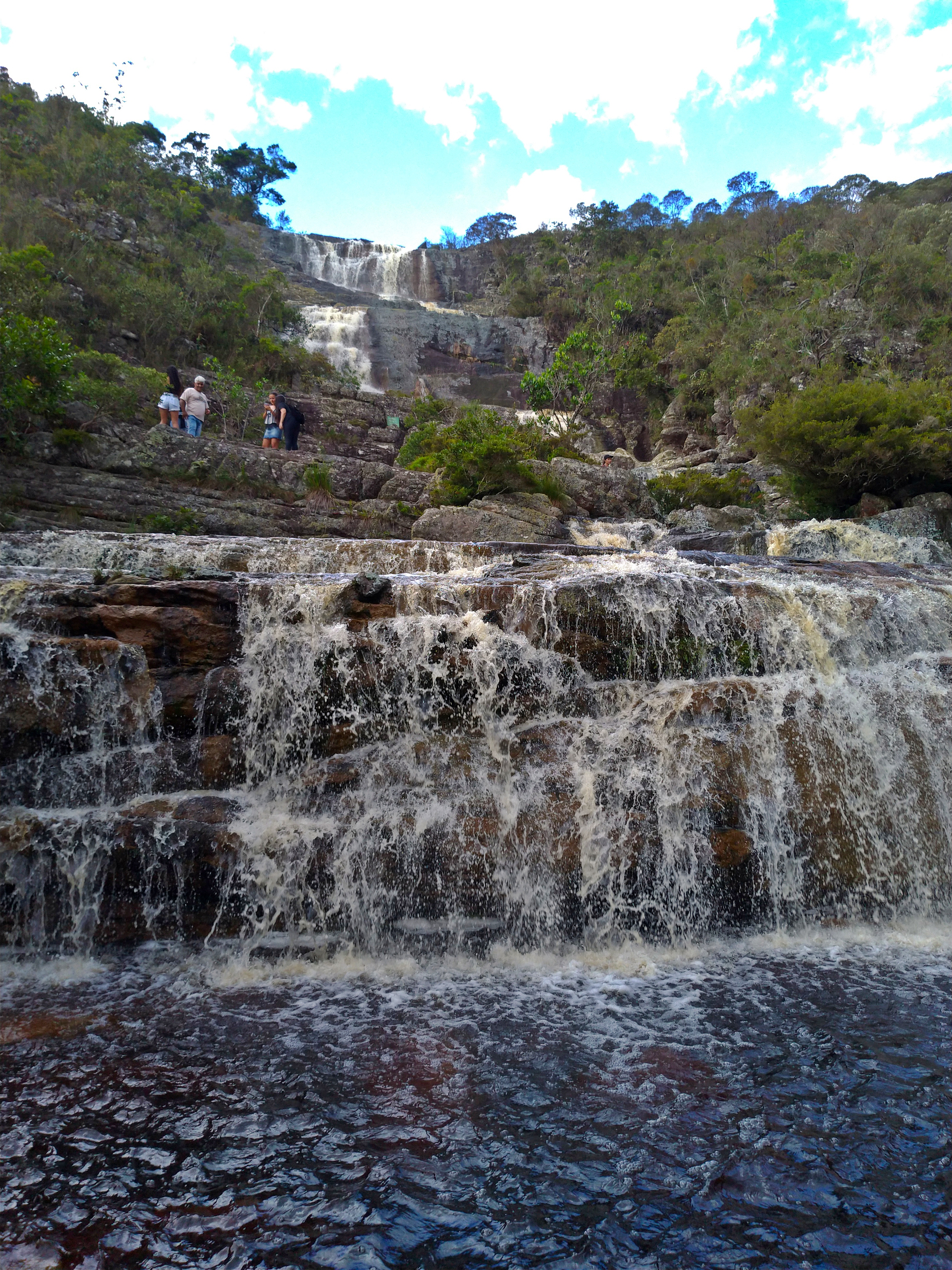 Steps of the Cascatinha in the Caraça ridge, in Catas Altas, Minas Gerais, Brazil.